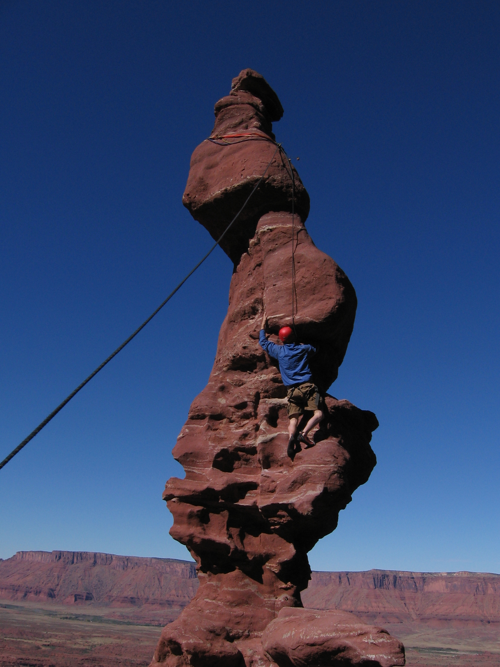 Climber ascends the Corkscrew, Ancient Art Tower, Fisher Towers near Moab, Utah.